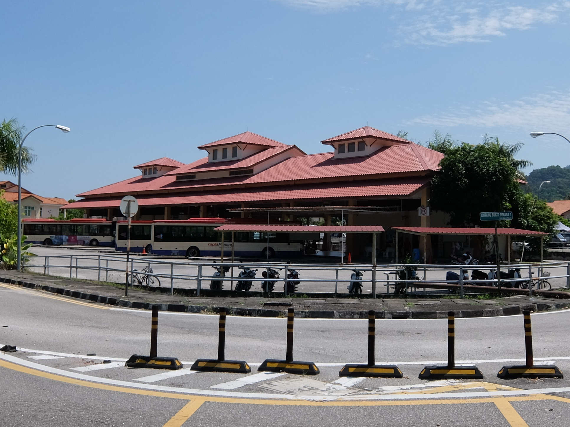 Balik Pulau Bus Terminal, Balik Pulau, Southwest Island, Penang, Malaysia